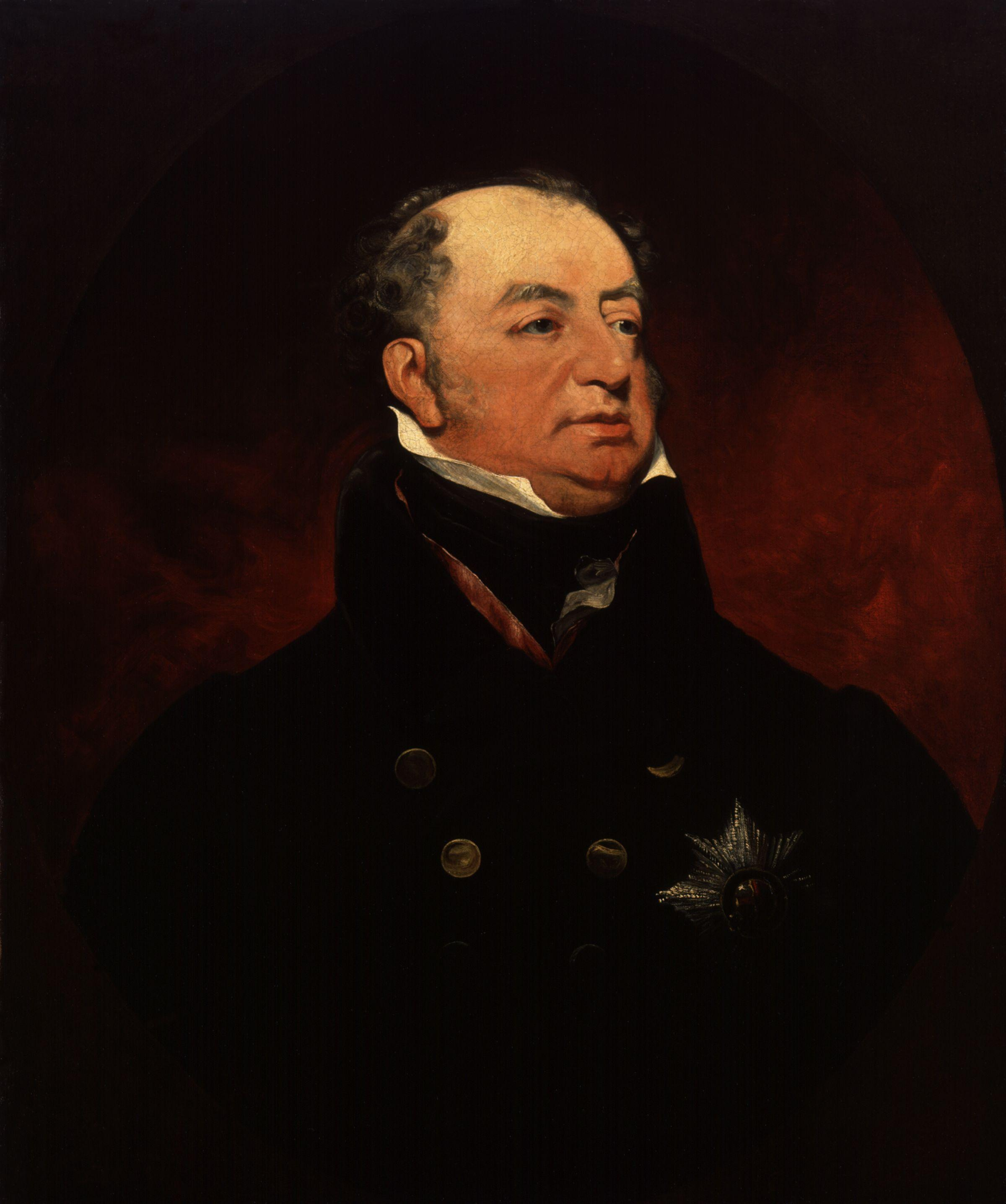 Frederick, Duke of York and Albany, by John Jackson (died 1831). All images in this batch have been confirmed as author died before 1939 according to the official death date listed by the NPG.